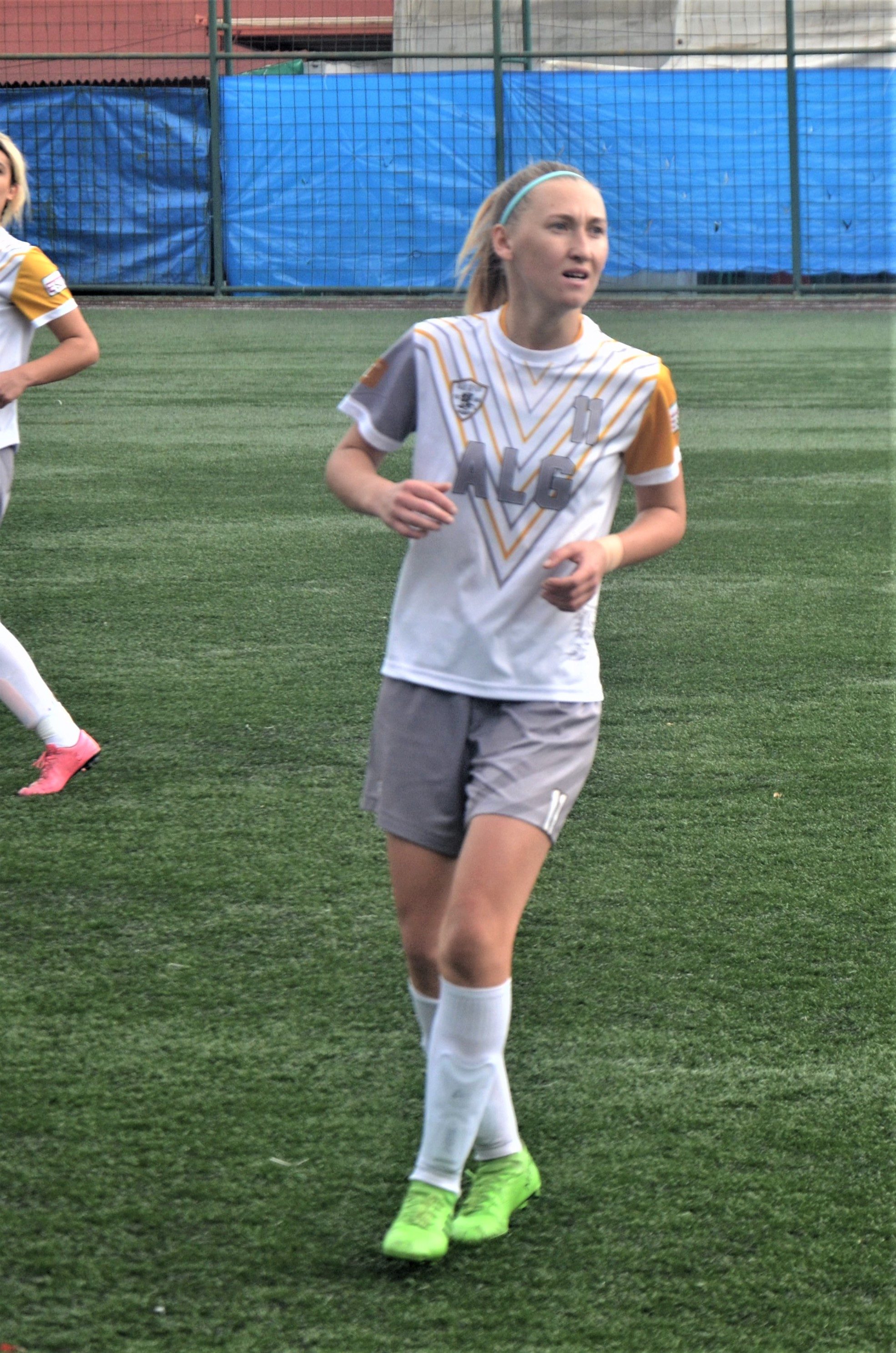 Liudmyla Shmatko of ALG Spor in the 2018-19 Turkish Women's First League.